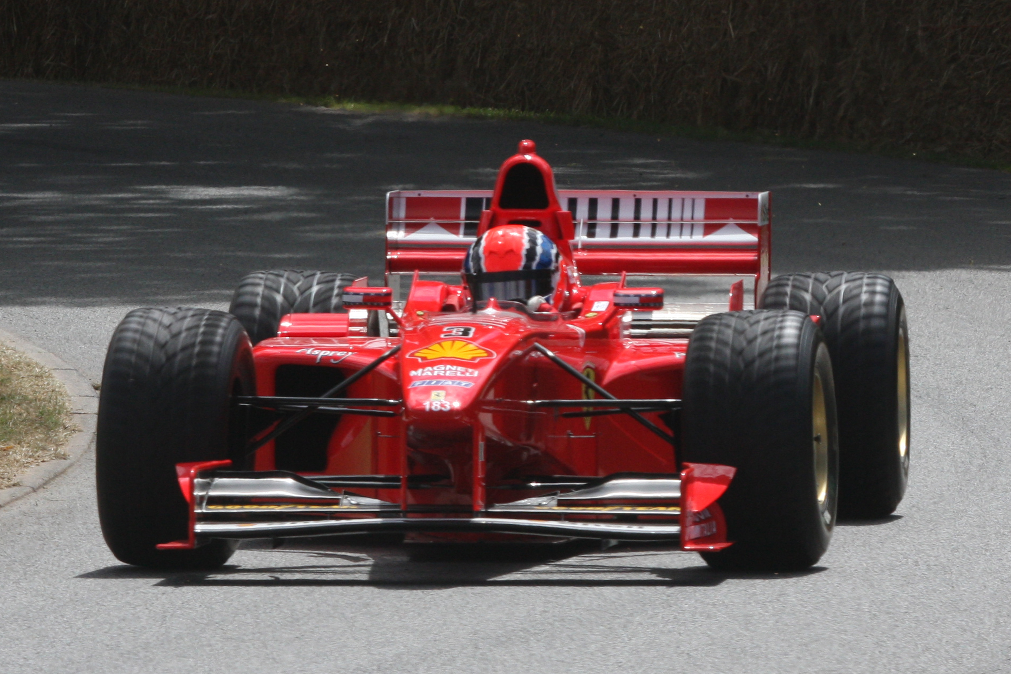 Formula 1 car Ferrari F300 1998 at Goodwood festival of speed 2009